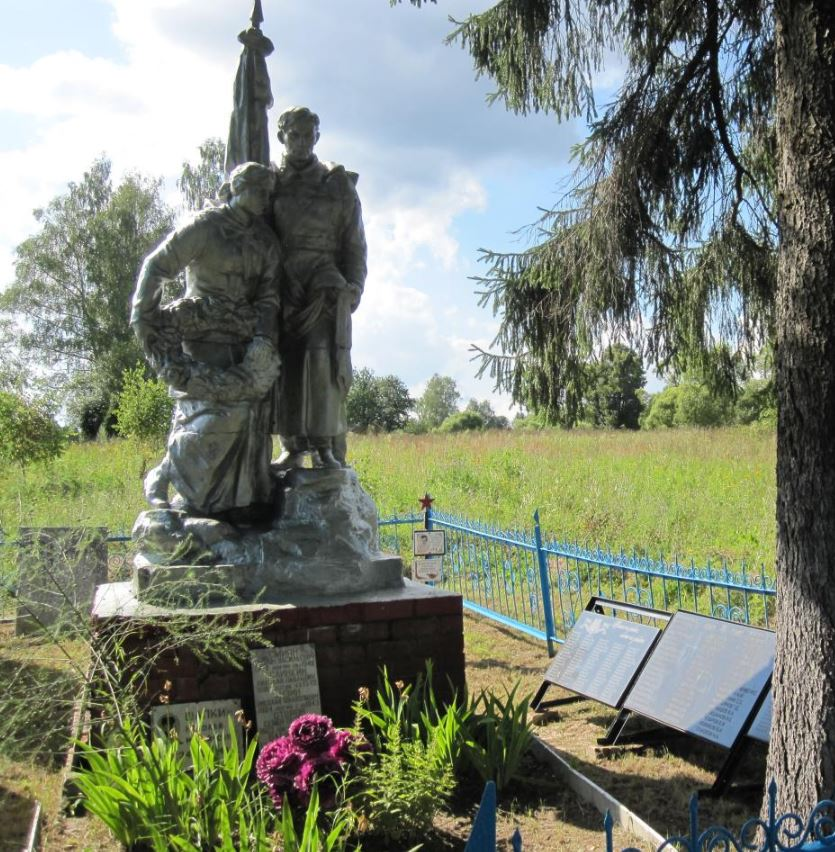 Братская могила (дер.Городок, Орловская область)